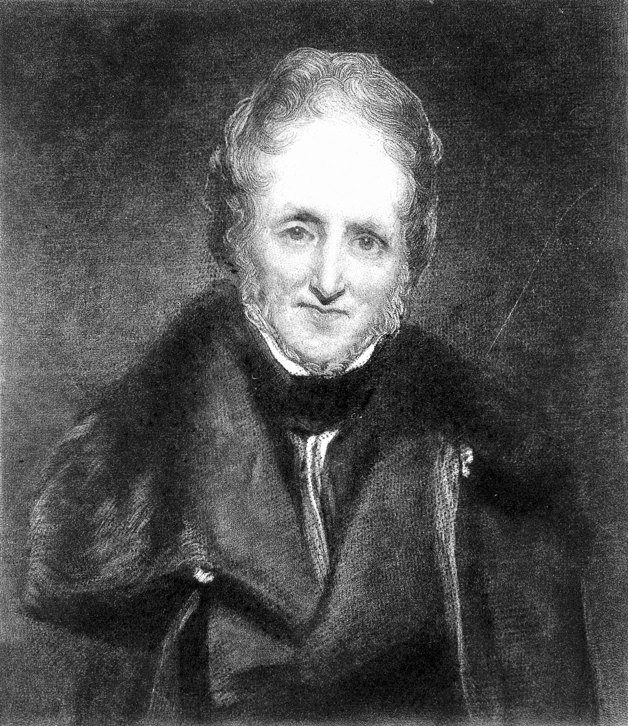 Portrait of George Field (1777-1854), by Lucas after Rothwell - portrait only Iconographic Collections Keywords: George Field; David Lucas; R. Rothwell